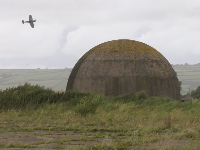 Disused RAF training facility and a Spitfire What can I say? I only stopped to take a picture for my own records of this training dome (a forerunner of today's flight simulators) as a result of Mike Williams' first Geograph of this architectural relic. At first I assumed the plane that flew into focus of my first picture taken of the dome was an RAF training plane but the aircraft's distinctive profile suggested it looked remarkably like a Spitfire. Indeed, that's what it turned out to be. There was a Battle of Britain Memorial Flight taking place from nearby Pembrey airfield just as I was passing and happened to stop to take my picture. What a lovely looking and agile aircraft the Spitfire was!